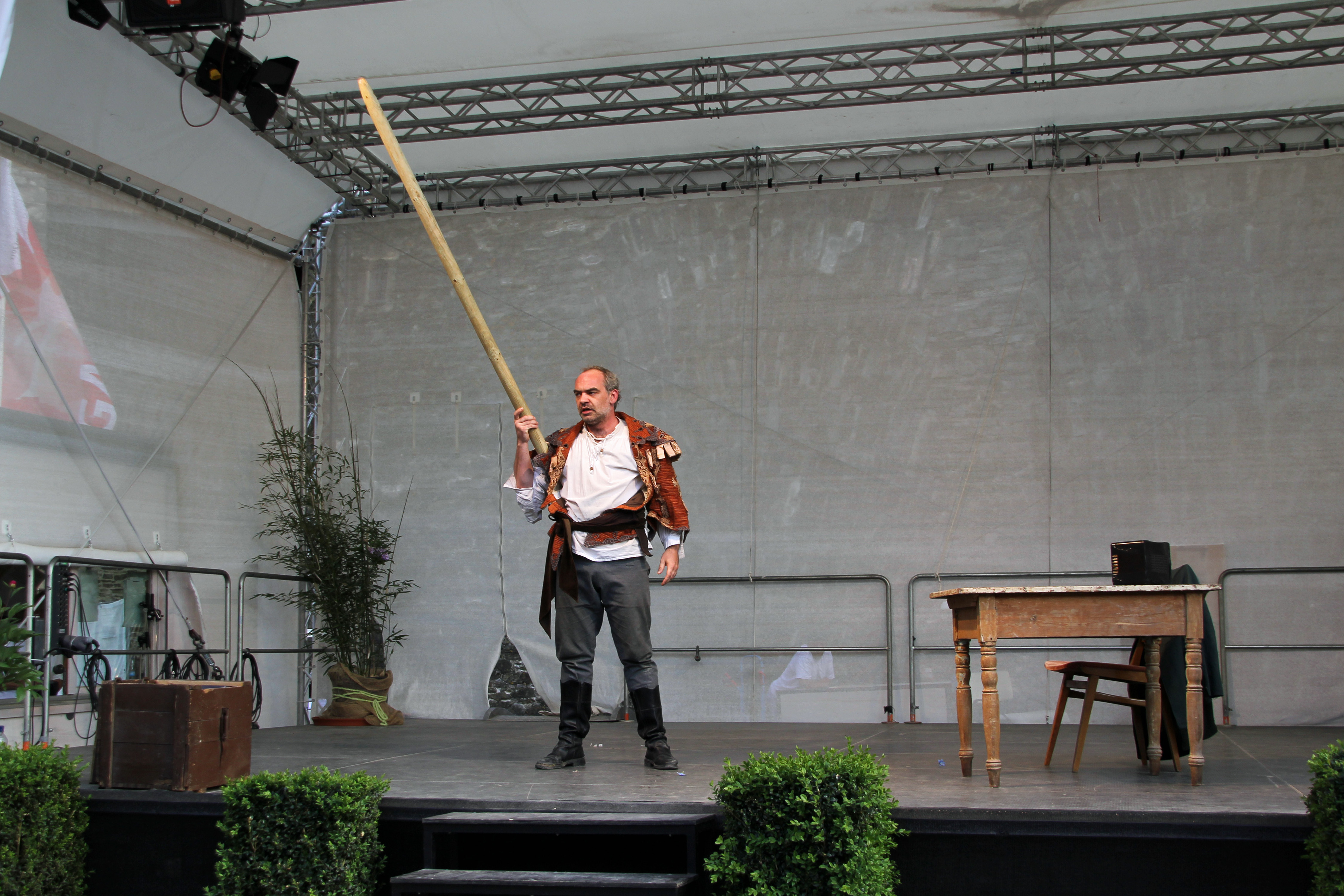 Federal Horticultural Show 2011 in Koblenz